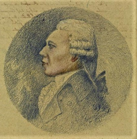 Depicted person: Carl Stamitz